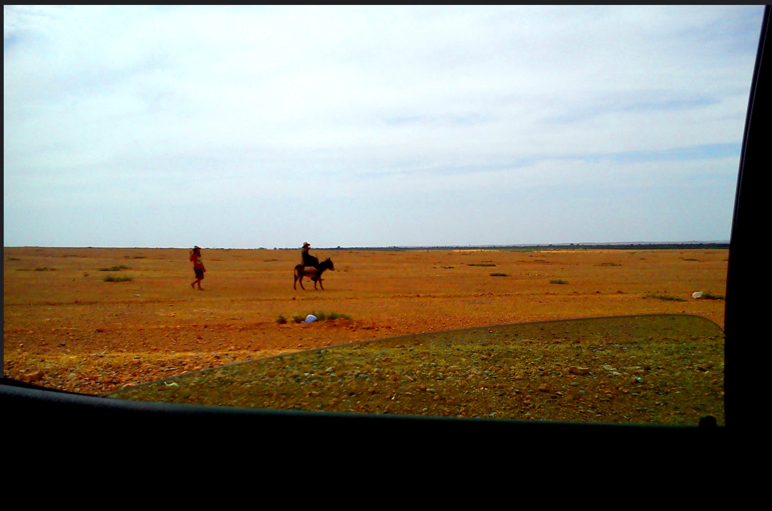 husband and wife in rural area of morocco_picture from the car window